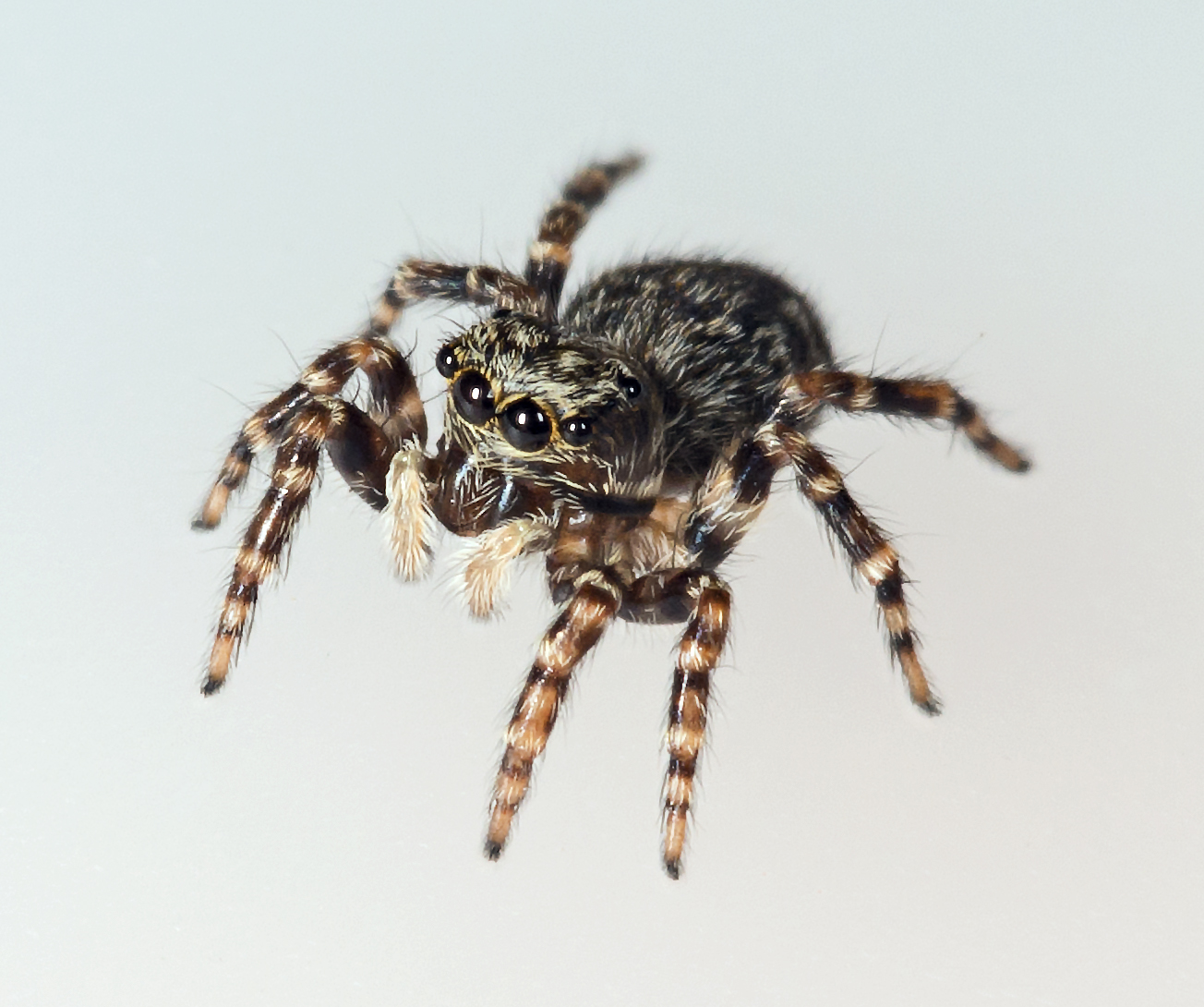 Pseudeuophrys lanigera. Front view. Living animal. Size 4 mm.